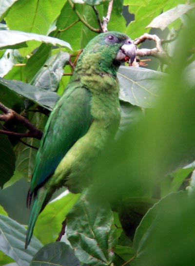 Black-billed Amazon in the John Crow Mountains, Portland, Jamaica.